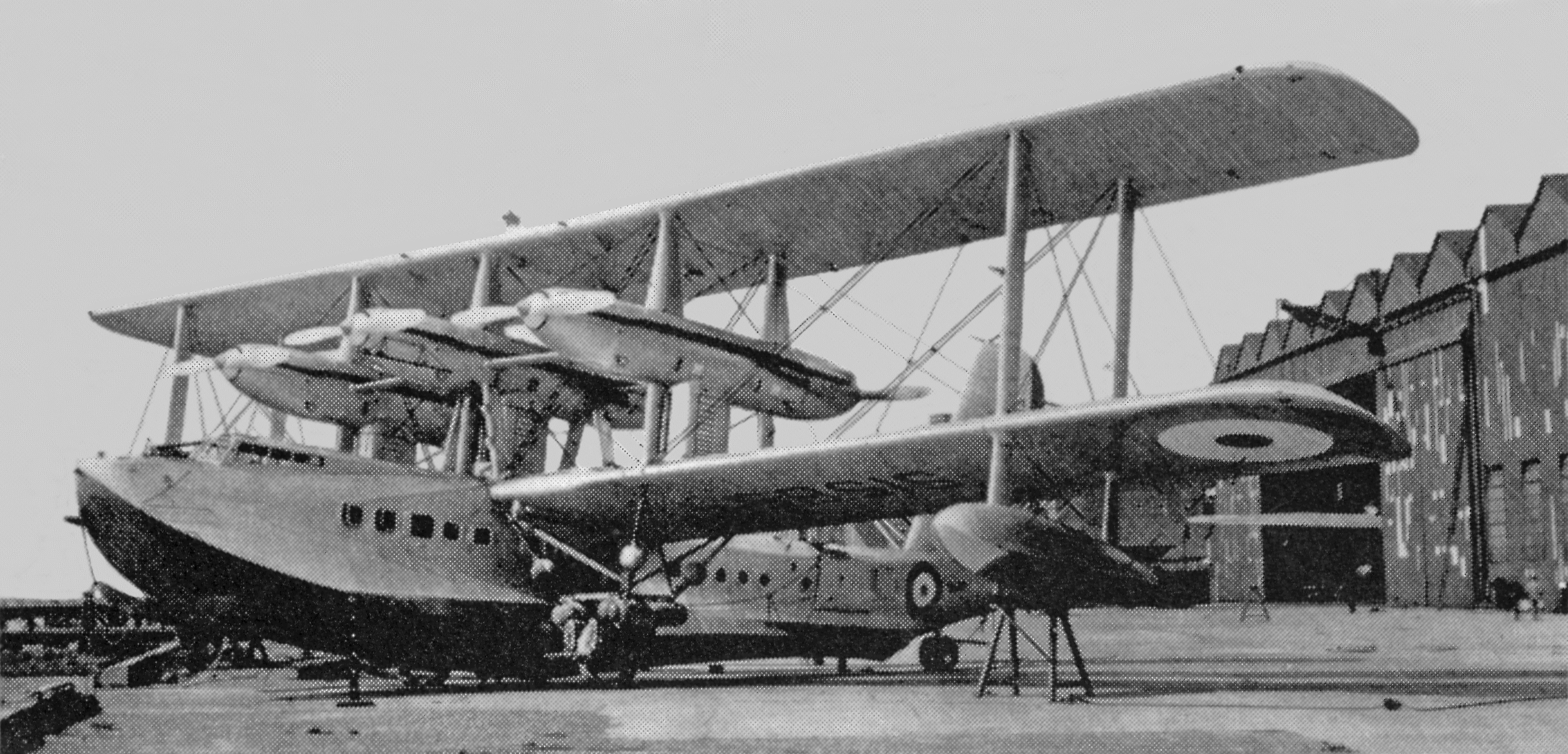 Short S.14 Sarafand (S1589), at Felixstowe, August 1932